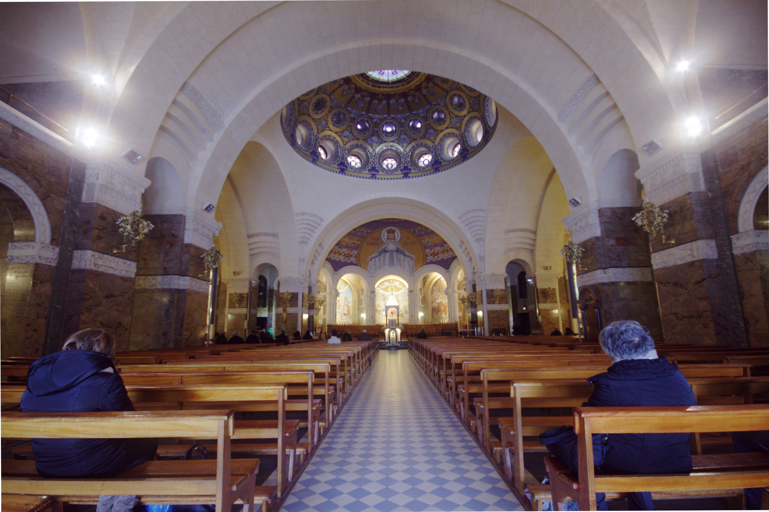 Rosary Basilica - Lourdes